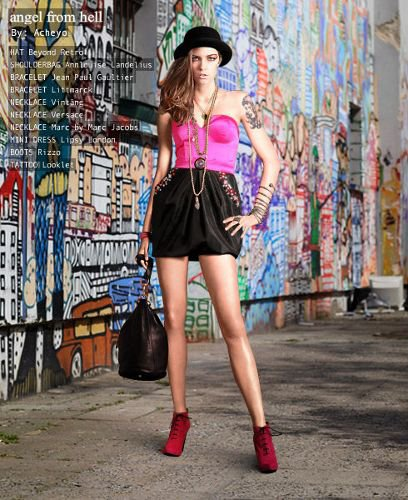 this is one of my looklet's creation.